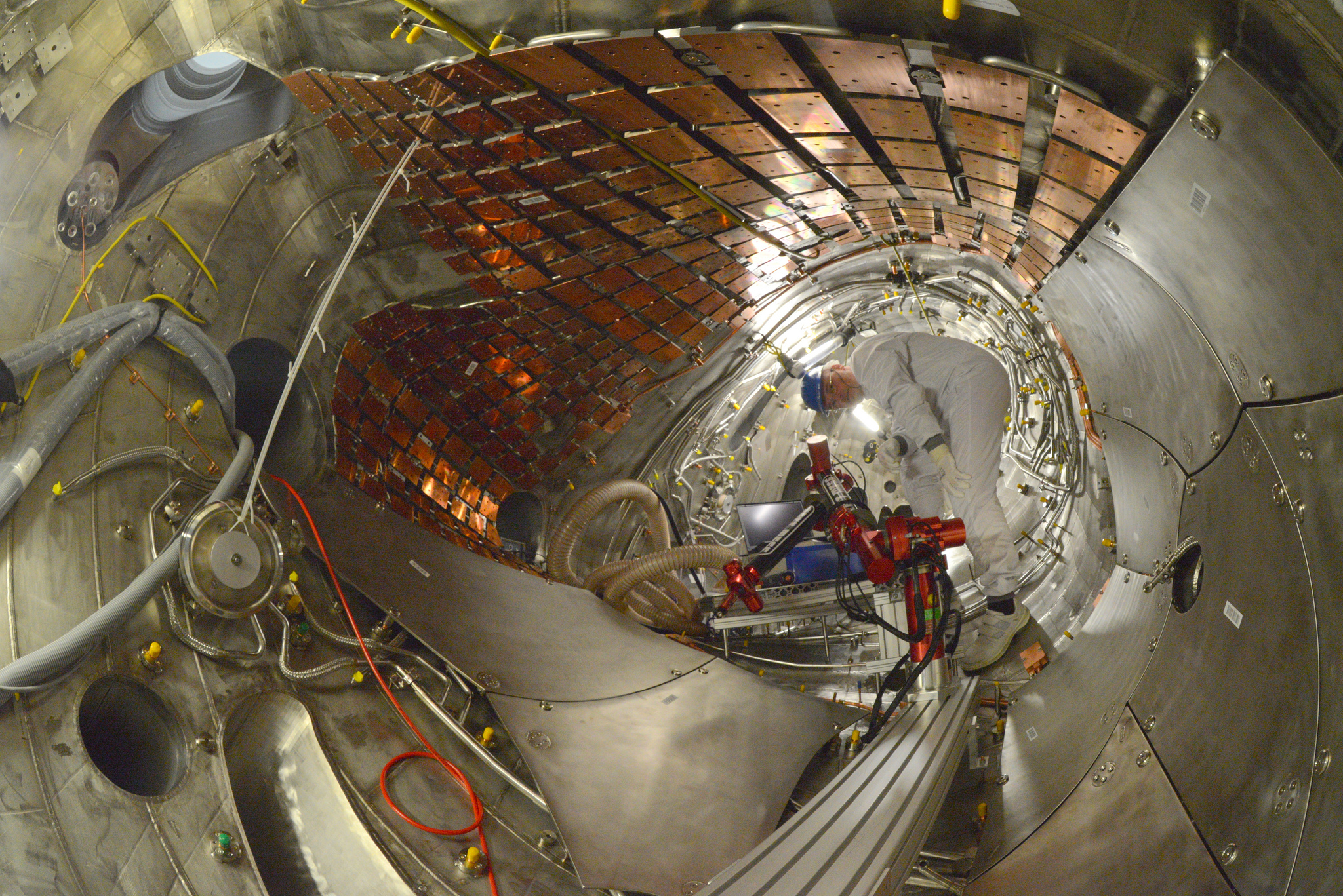 This wide-angle view inside the W7-X stellarator (April 2013), shows the stainless cover plates, and the water-cooled copper backing plates (which will eventually be covered by graphite tiles) that are being installed as armor to protect against plasma/wall interactions.